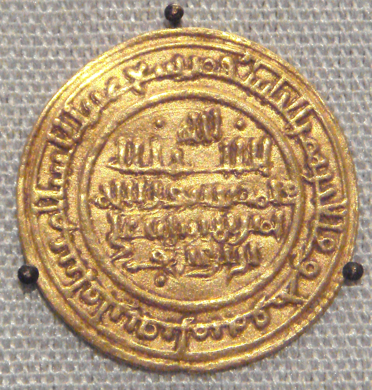 Almoravids_Sevilla_Spain_1116